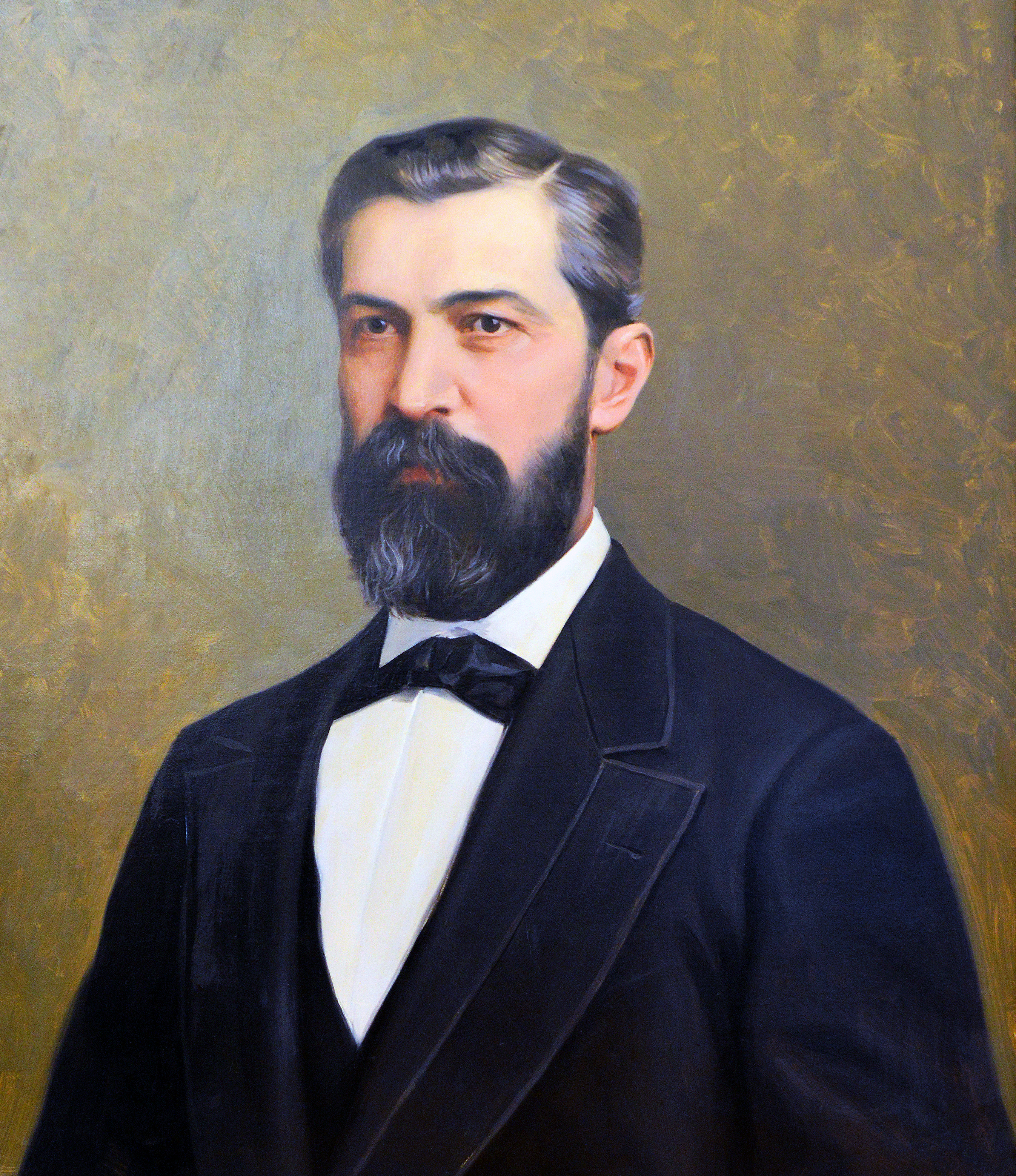 Portrait of Absalón Ibarra (1834 - 1890). Son of Juan Felipe Ibarra, he was senator and governor of the argentine province of Santiago del Estero, over two periods (1864-1867 y 1873-1875). This portrait was painted in the late 19th century by Alejandro Witcomb (1835 - 1905). The portrait is exhibited to the public since 1941, in the Museo Histórico Provincial "Orestes Di Lullo" (Provincial Historical Museum "Orestes Di Lullo") in Santiago del Estero, Argentina. In this museum, there is a gallery called "Galería de los Gobernadores" (Governors's Gallery), where the portraits of the governors of the province of Santiago del Estero are exhibited, including Absalón Ibarra's portrait.